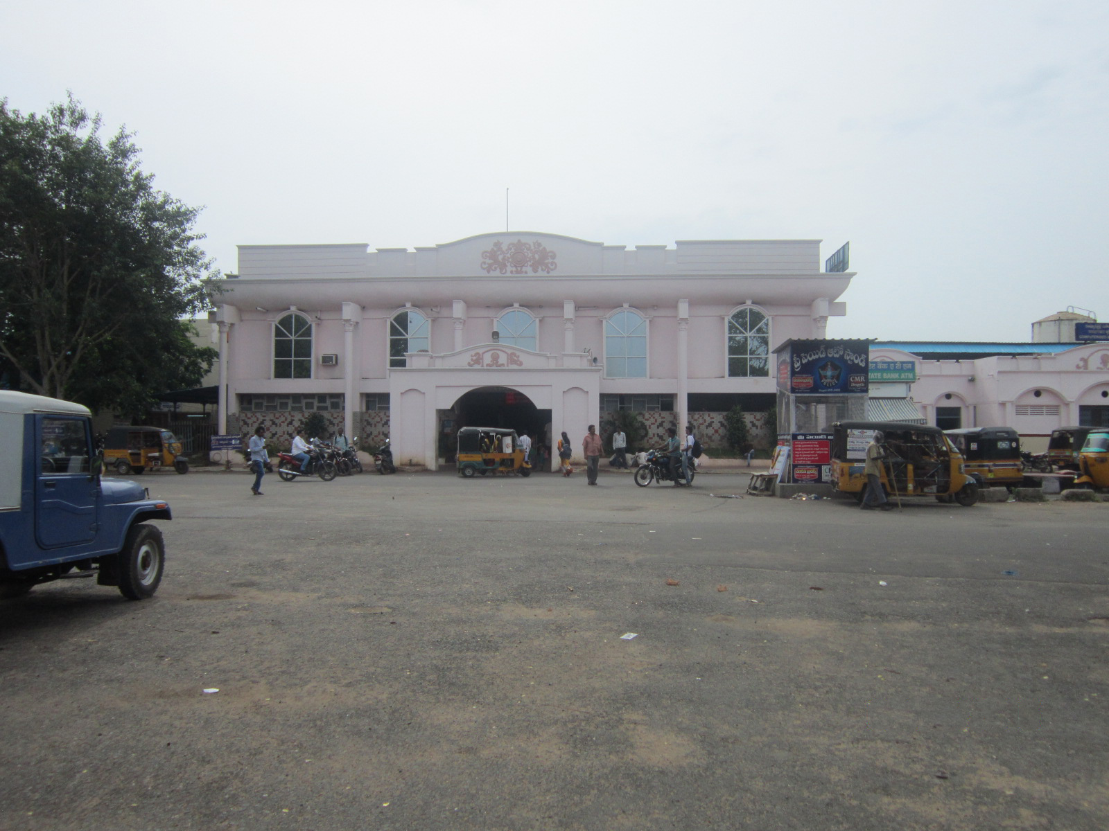 Front view of nellore Railway station